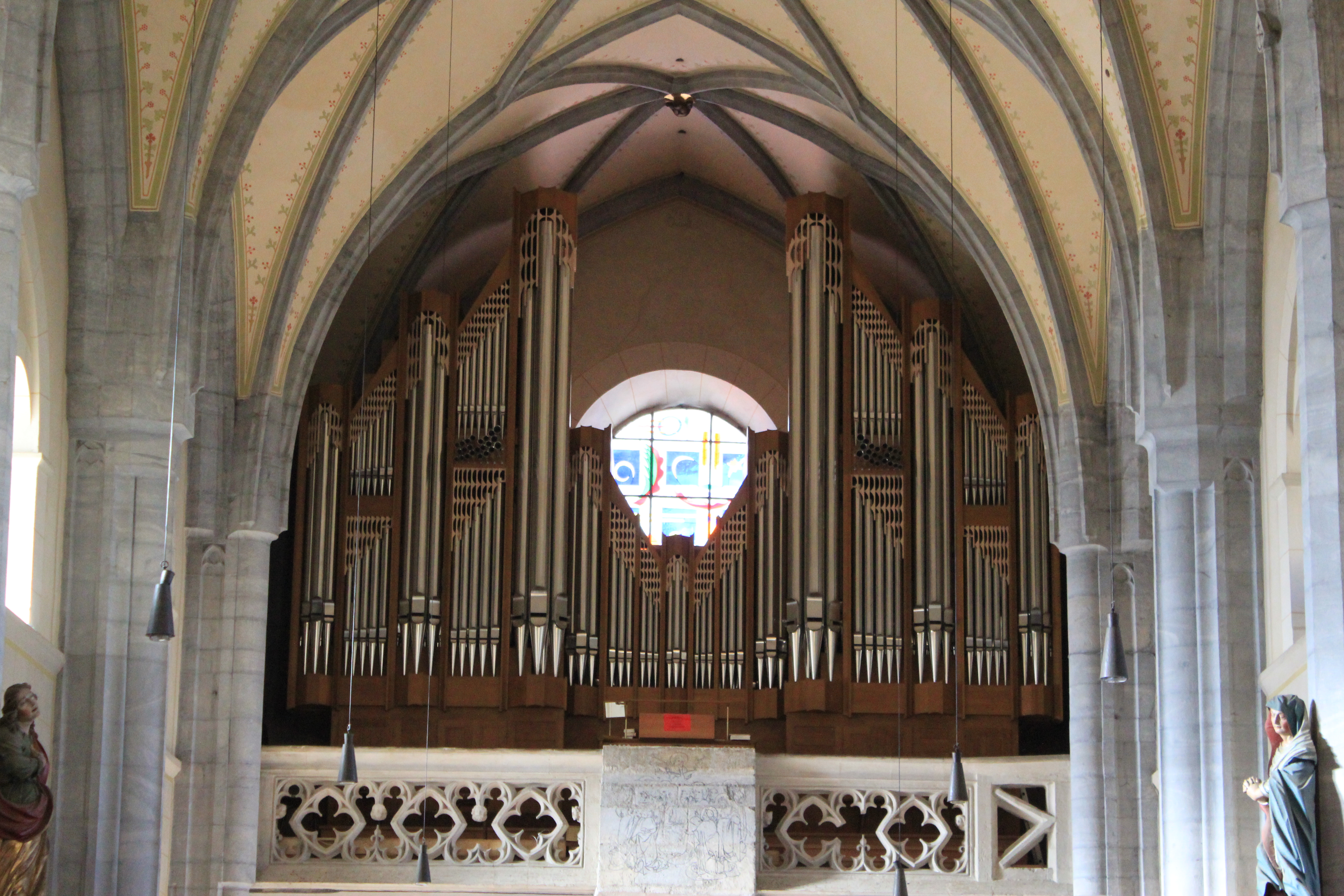 Parish church of Friesach: organ